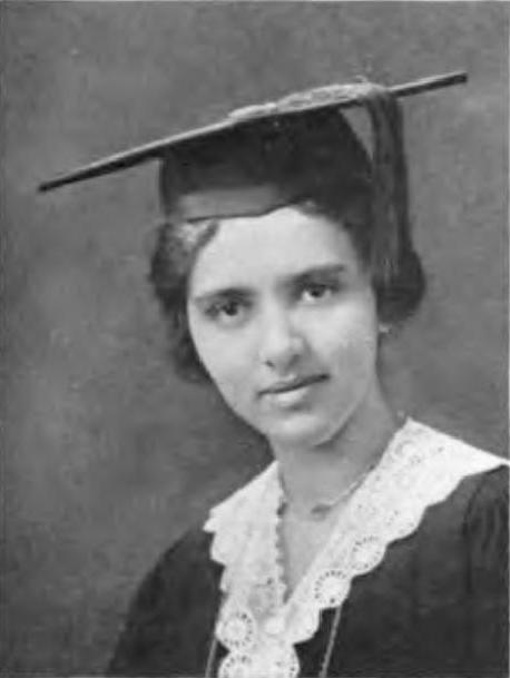 Radcliffe yearbook 1918 page 42